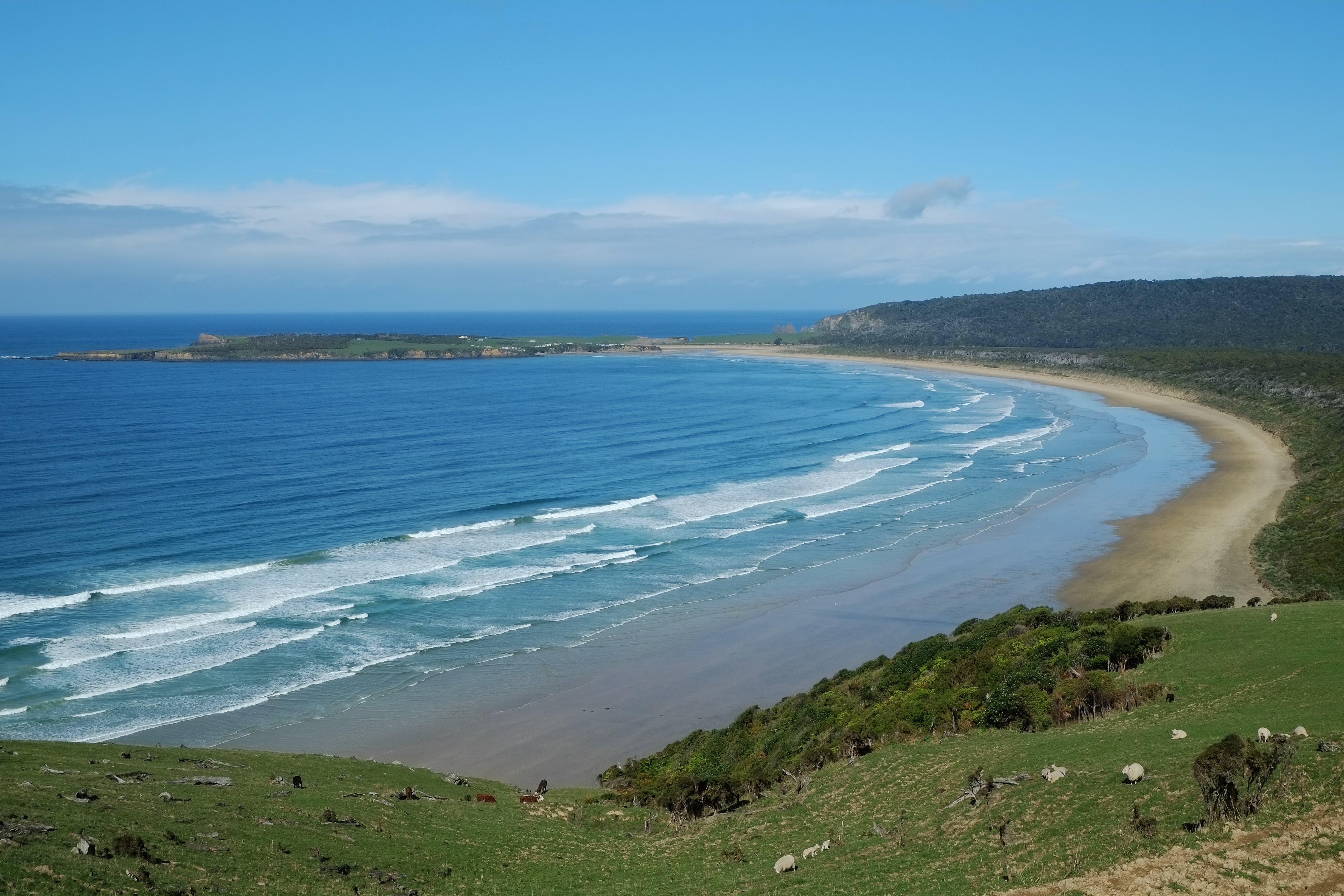 View from Florence Hill lookout over Tautuku Bay